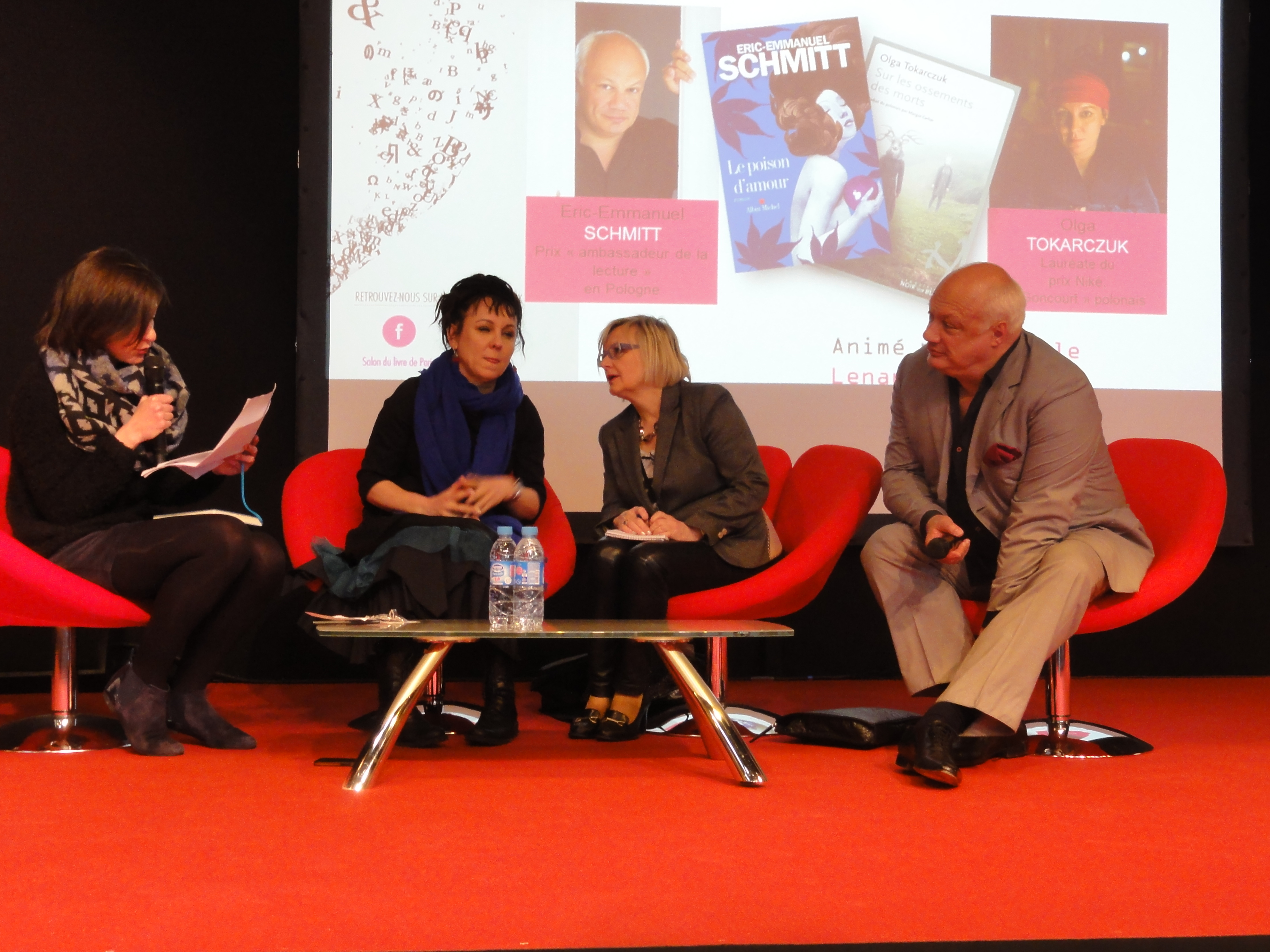 Paris, Salon du Livre 2015 (14) dialogue Olga Tokarckzuk (2ème de gauche) - Eric-Emmanuel Schmitt